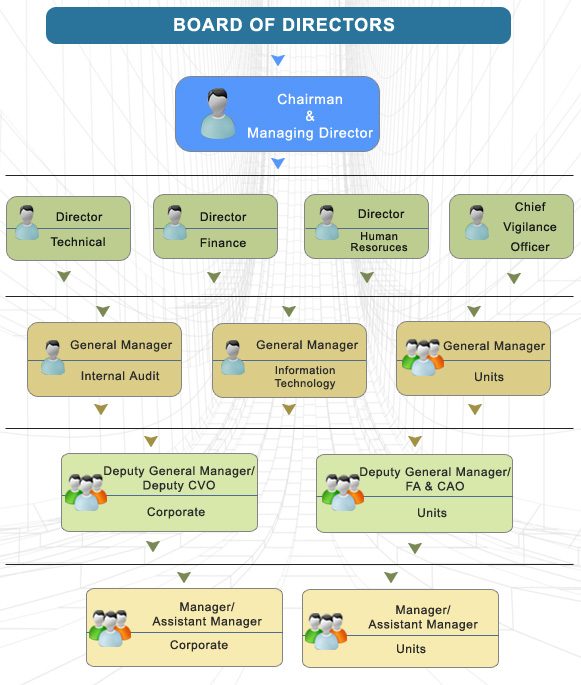 The image describes the organisational structure of SPMCIL